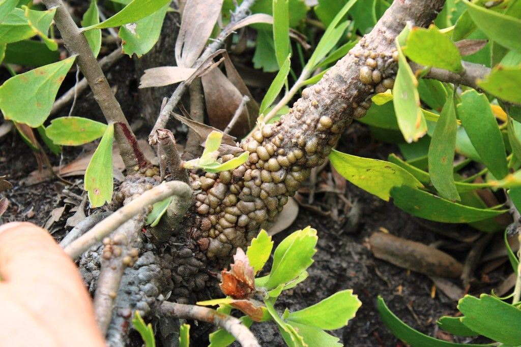 The base of the stem of the warty pincushion, Leucospermum cuneiforme, showing the warts that are unique for this species of pincushion